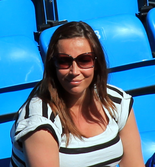 Susann Michaelsen NRK sports anchor